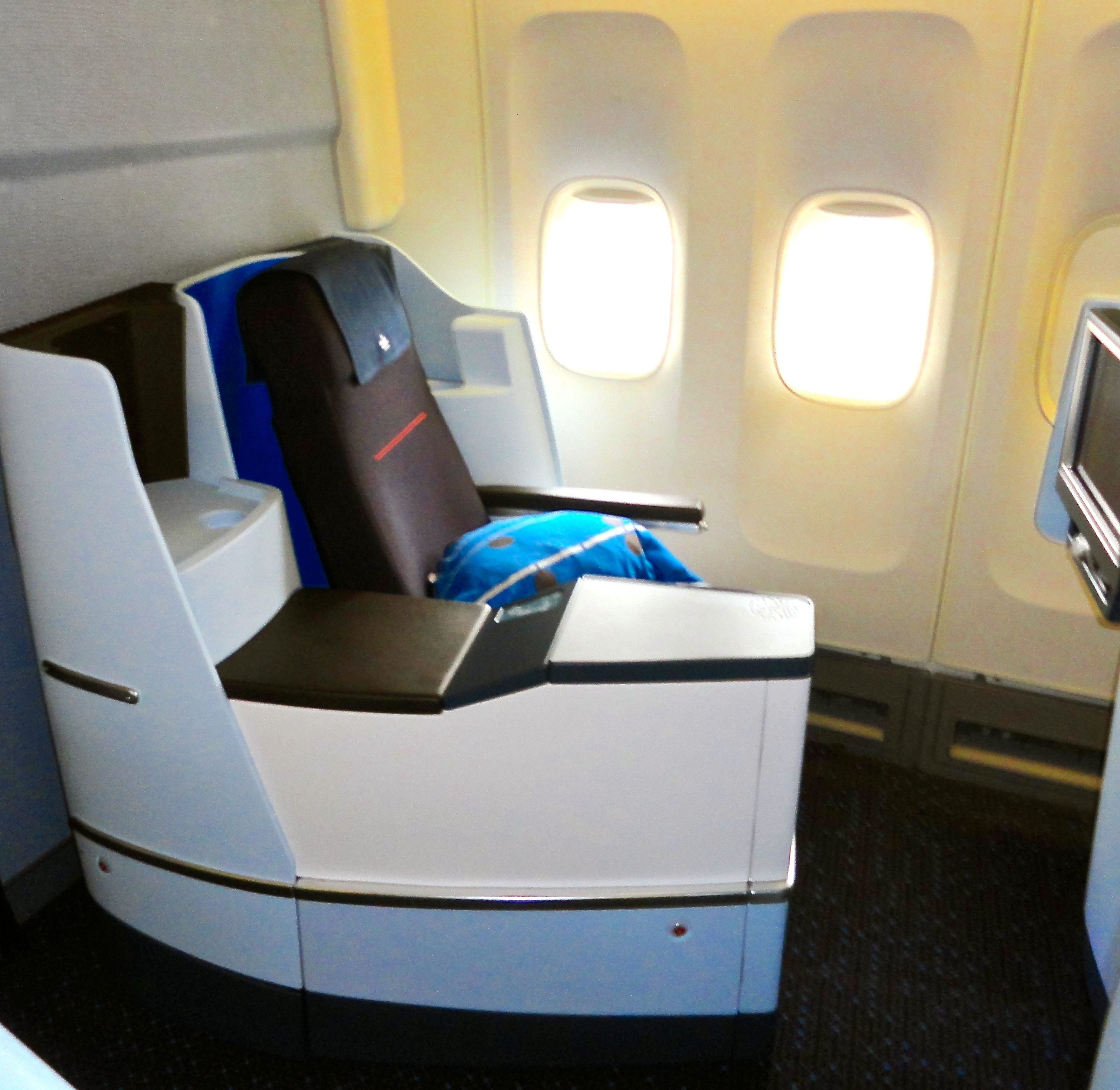 Newest World Business Class seat aboard KLM's 747